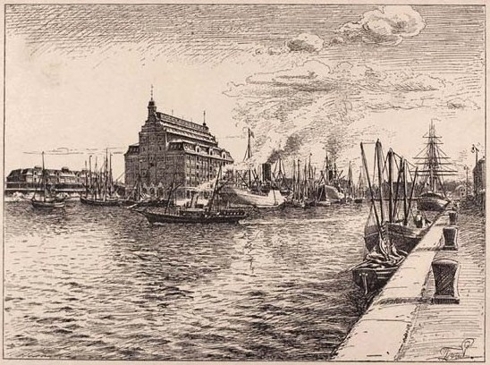 The new Free Port of Copenhagen. Reproduction of a drawing by Peter Tom-Petersen (1861-1926)